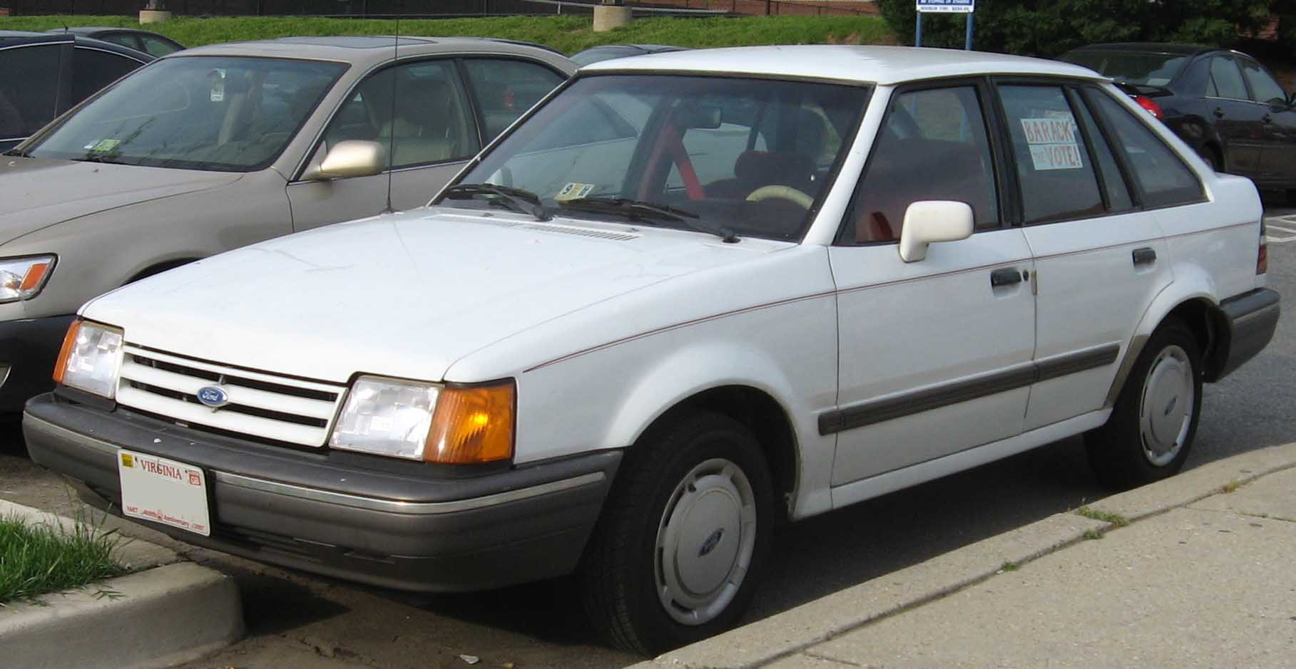 1988-1990 Ford Escort photographed in College Park, Maryland, USA.